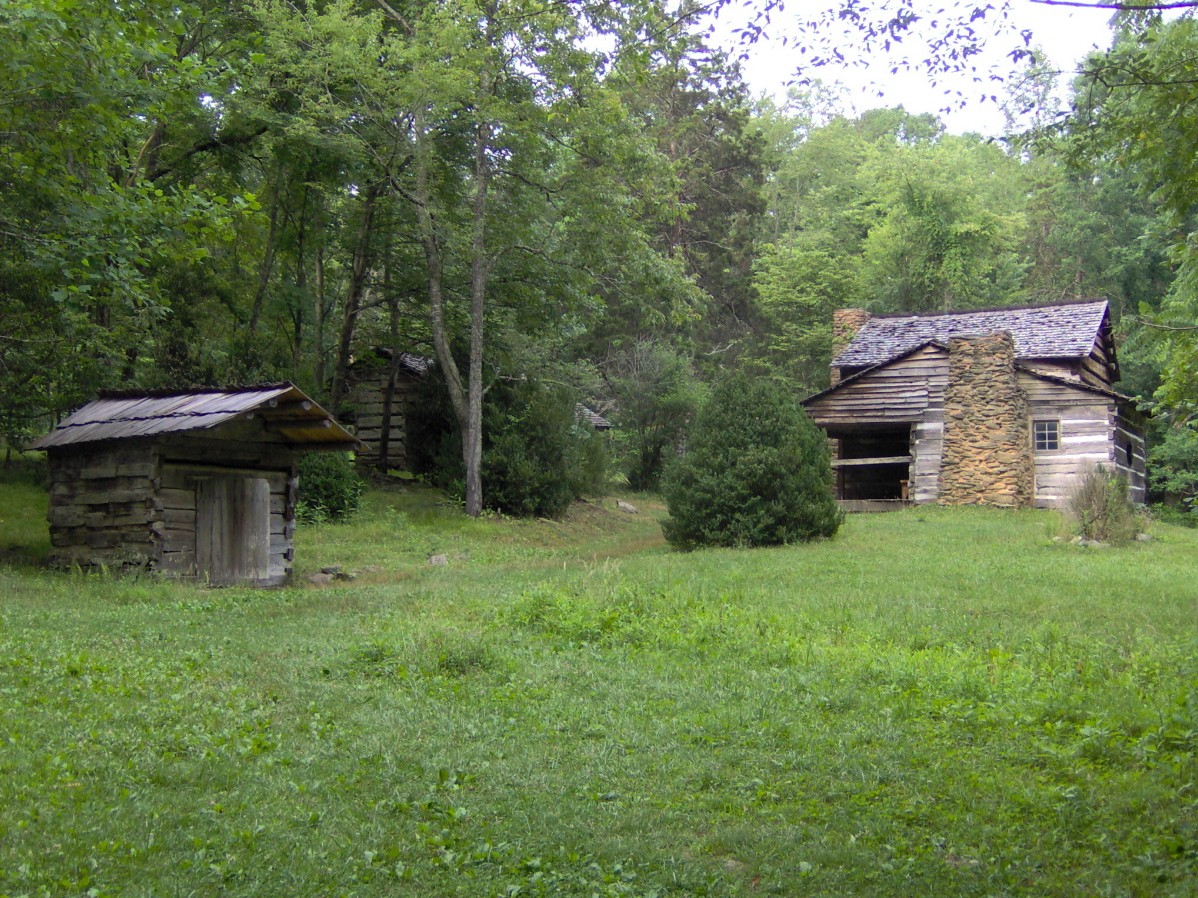 The King-Walker Homestead at Little Greenbrier (Great Smoky Mountains). The property was purchased by Wiley King in 1853, and a portion of the cabin was completed in 1859. A springhouse is in the foreground on the left, and a corn crib is in the distance, on the left.